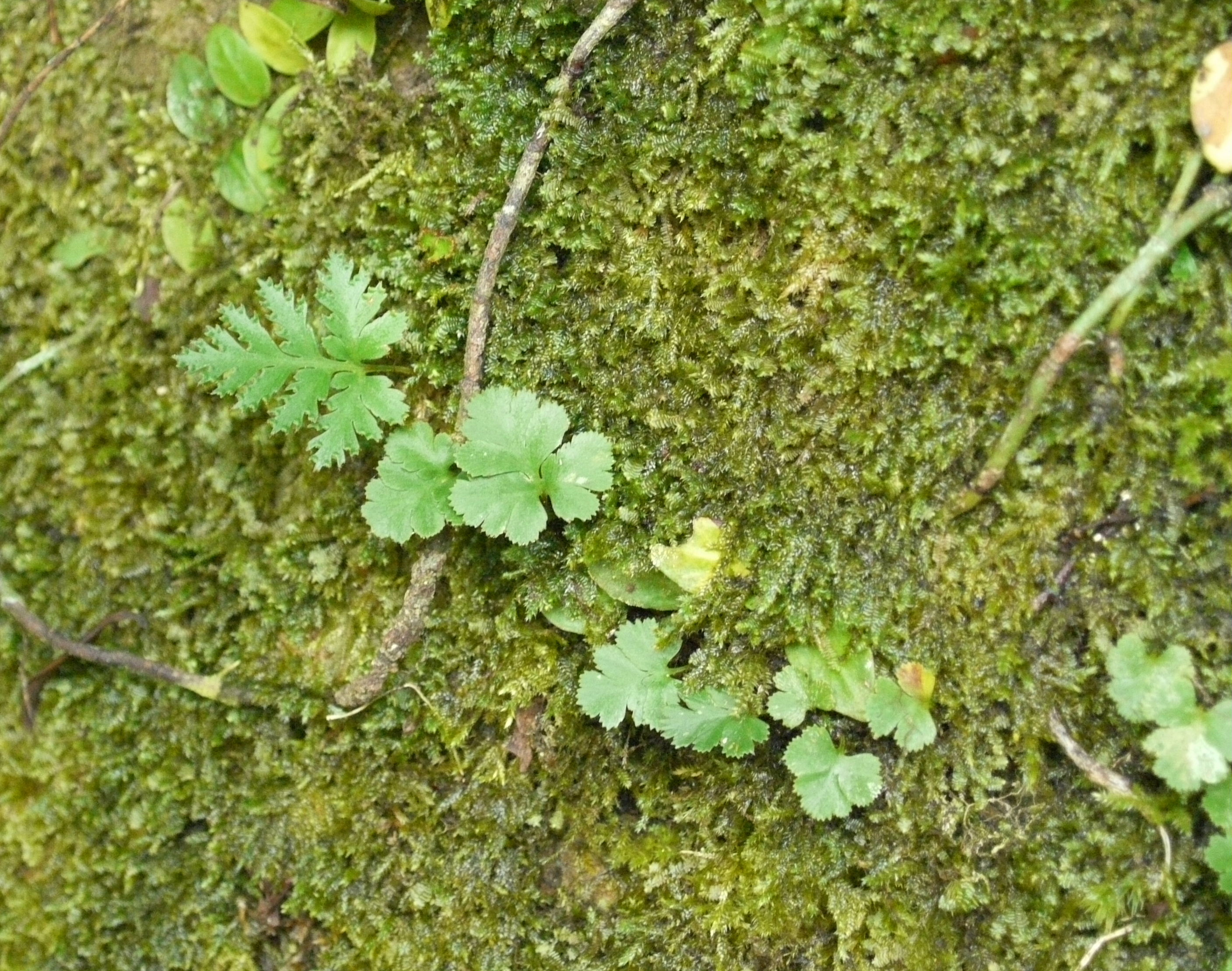 Pachypleuria__vestita(Davalliaceae)